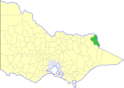 Location of the Shire of Upper Murray within Victoria.